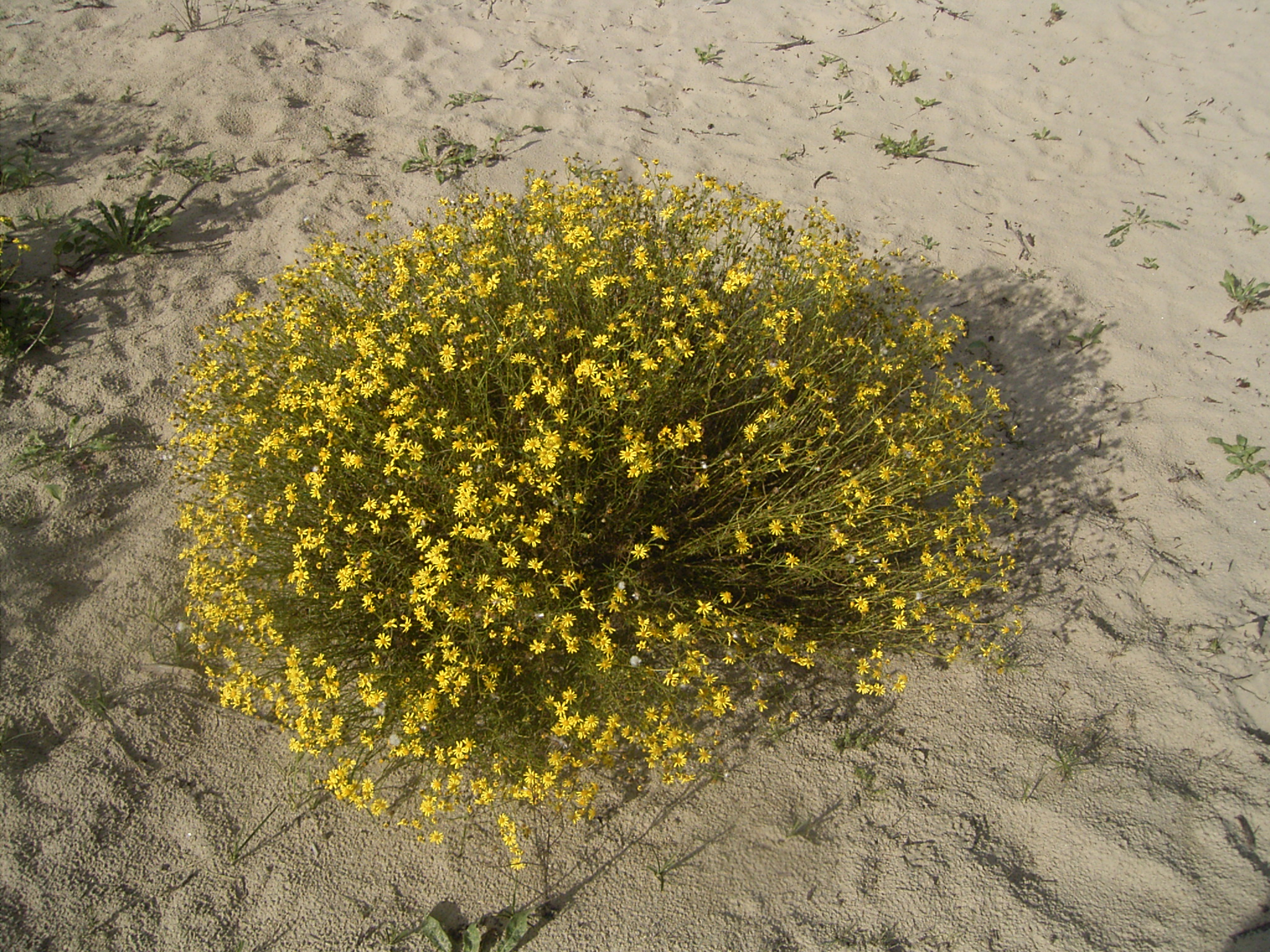 This photo shows Senecio inaequidens'